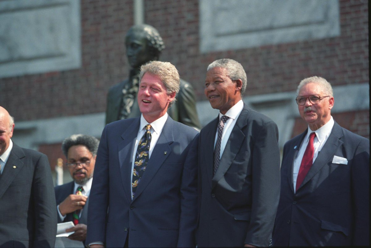 President Bill Clinton with Nelson Mandela at the Independence Hall in Philadelphia, PA, July 4 1993.